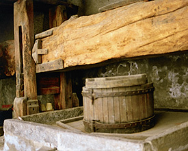 From the little Museum of Wine in Sessa (Swiss)